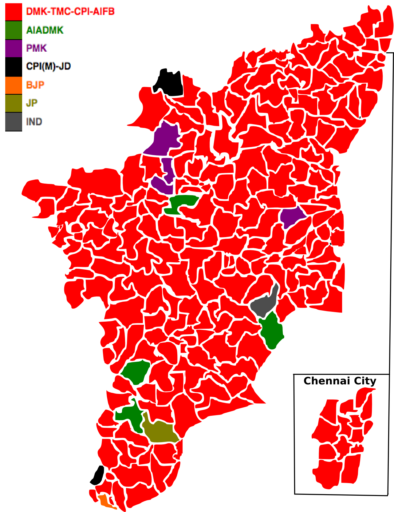 made election map using borders from ECI website using Inkscape.